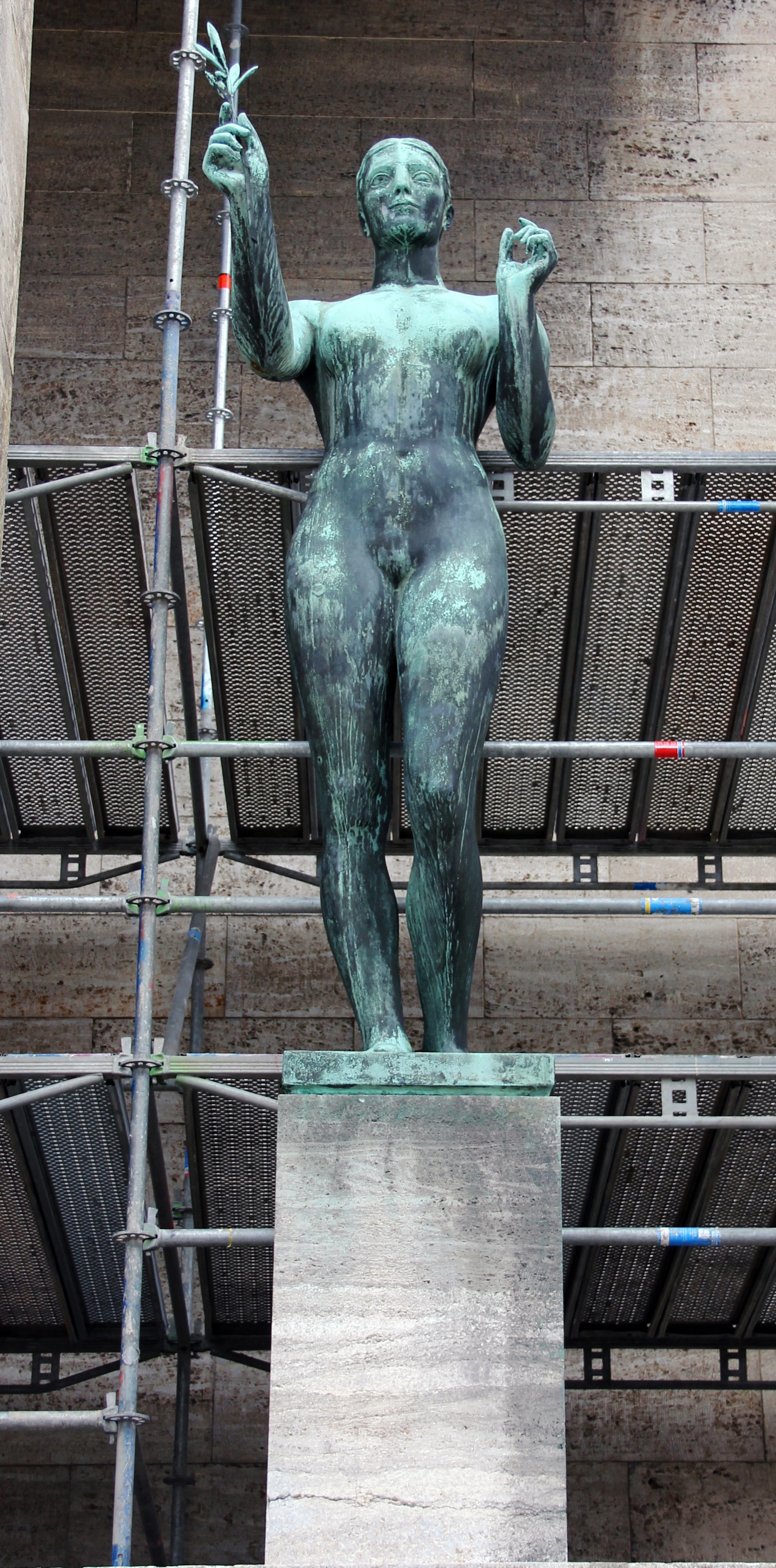 Sculpture, "Die Siegerin" by Arno Breker, 1936, Jahnplatz, Berlin-Westend, Germany